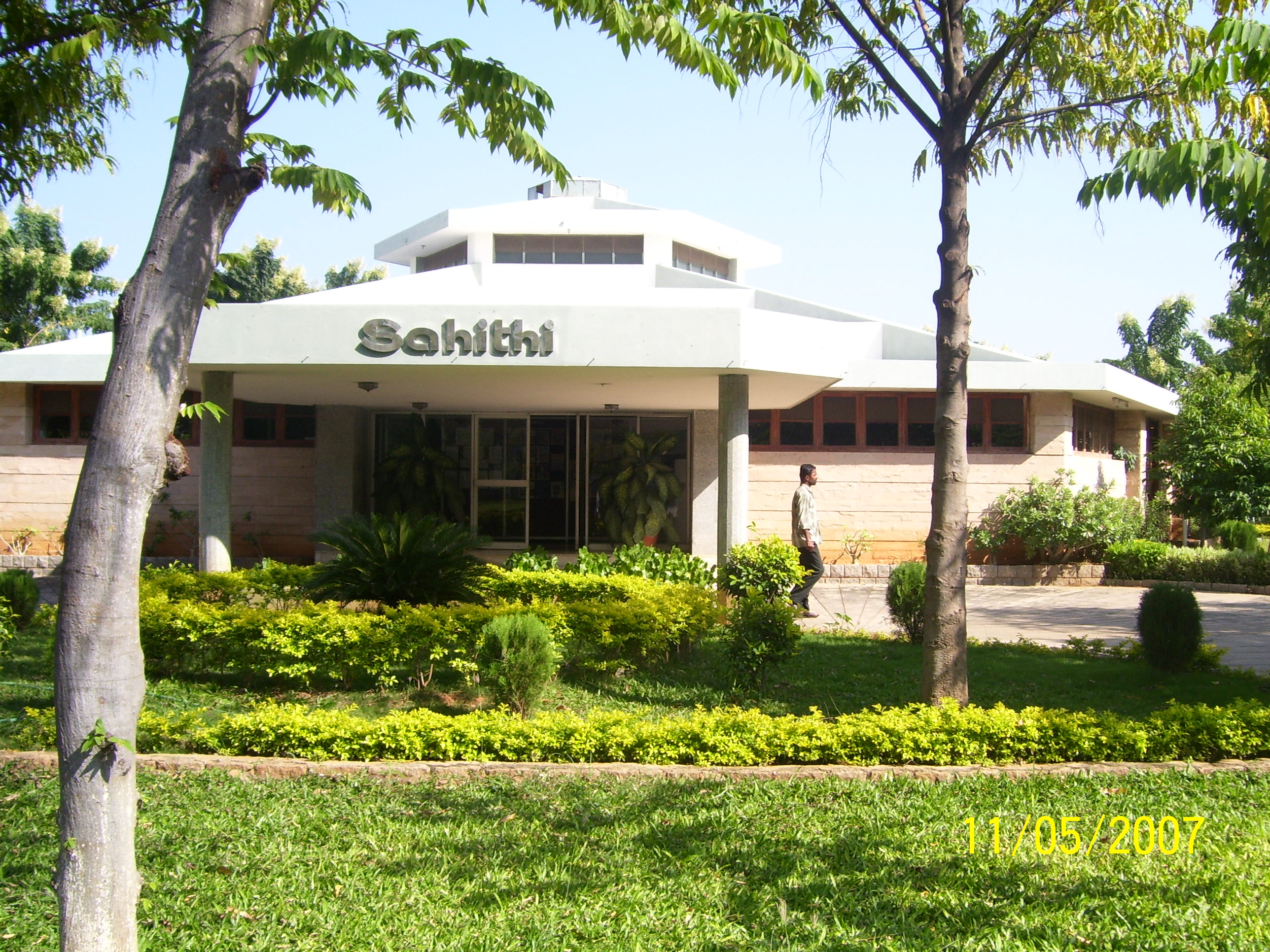 the main library of kims